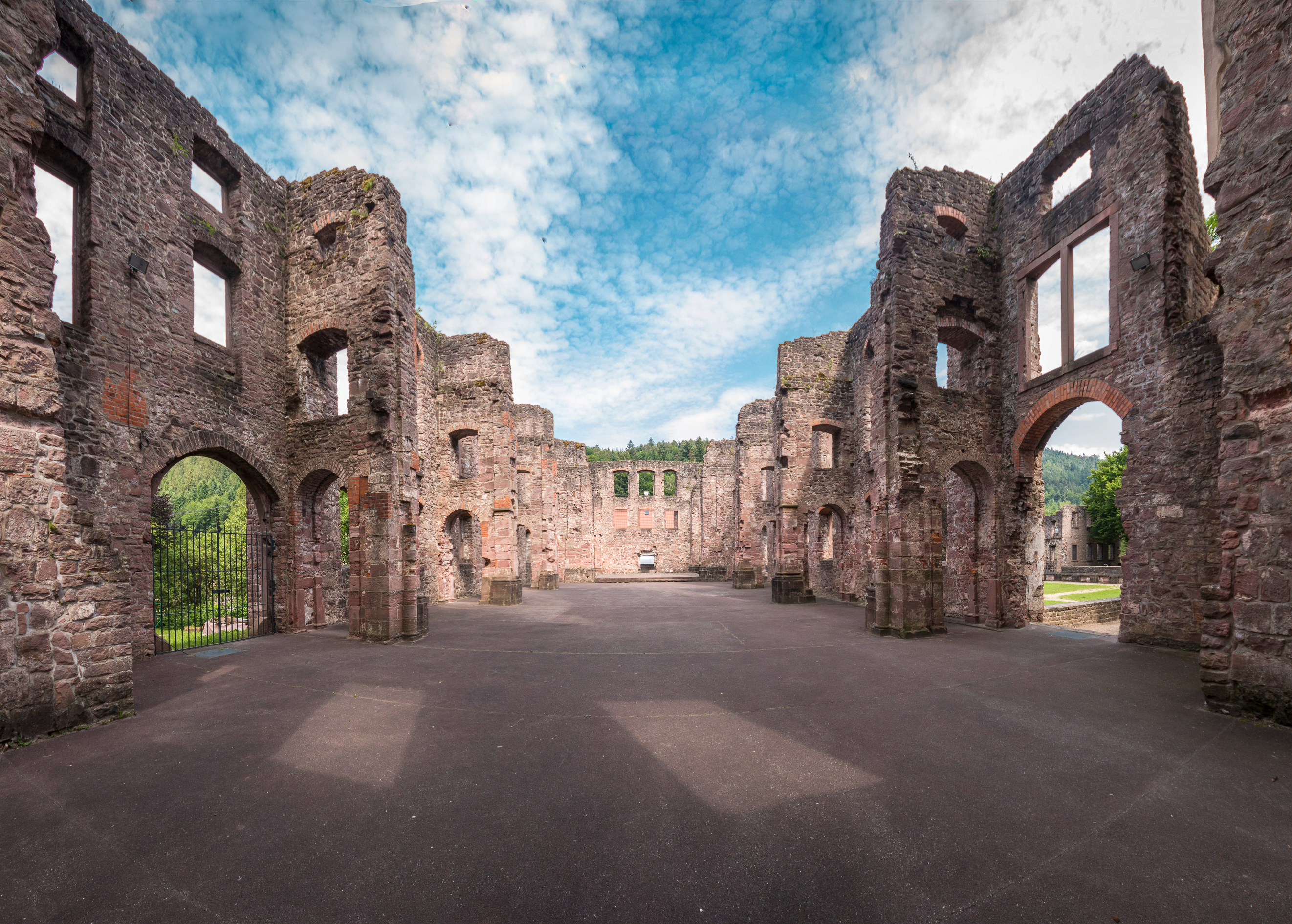 Ruins of Frauenalb Abbey